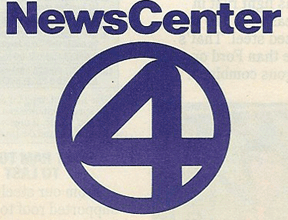 KCNC-TV logo and title card